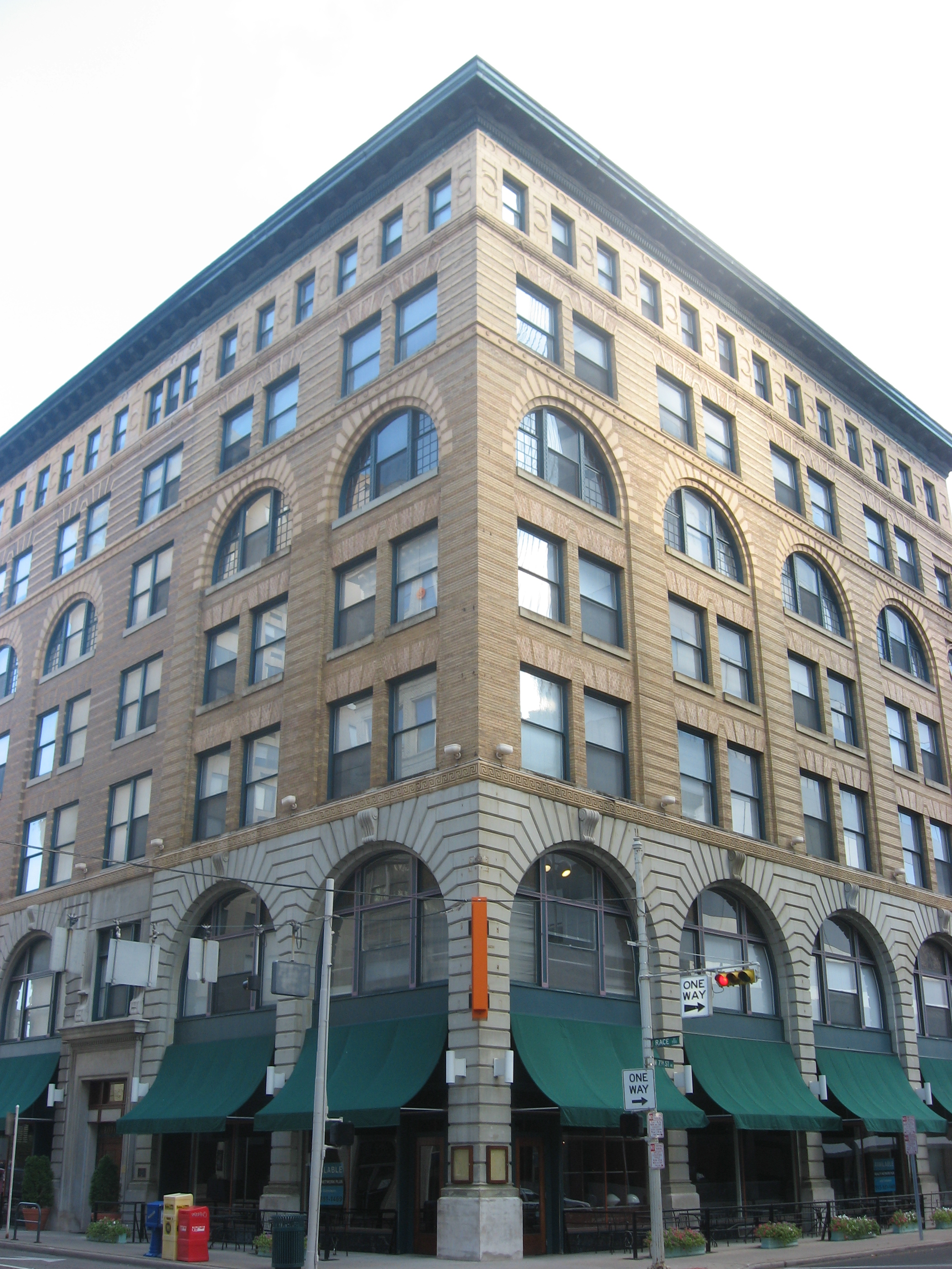 Building on the northeastern corner of the intersection of Seventh and Race Streets in downtown Cincinnati, Ohio, United States. This building is part of the Race Street Historic District, a historic district that is listed on the National Register of Historic Places.